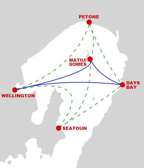 map of modern ferry routes in Wellington - blue represents daily service, green represents weekend service